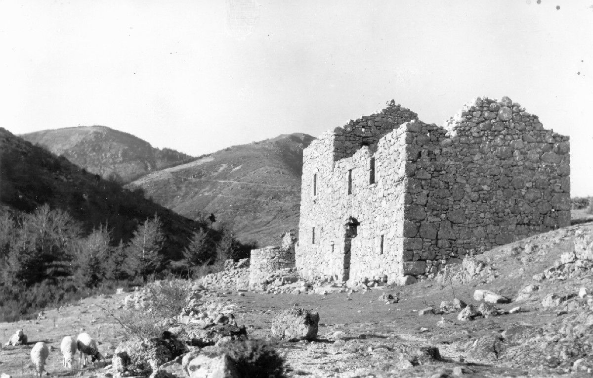 Mont Aigoual before reforestation.